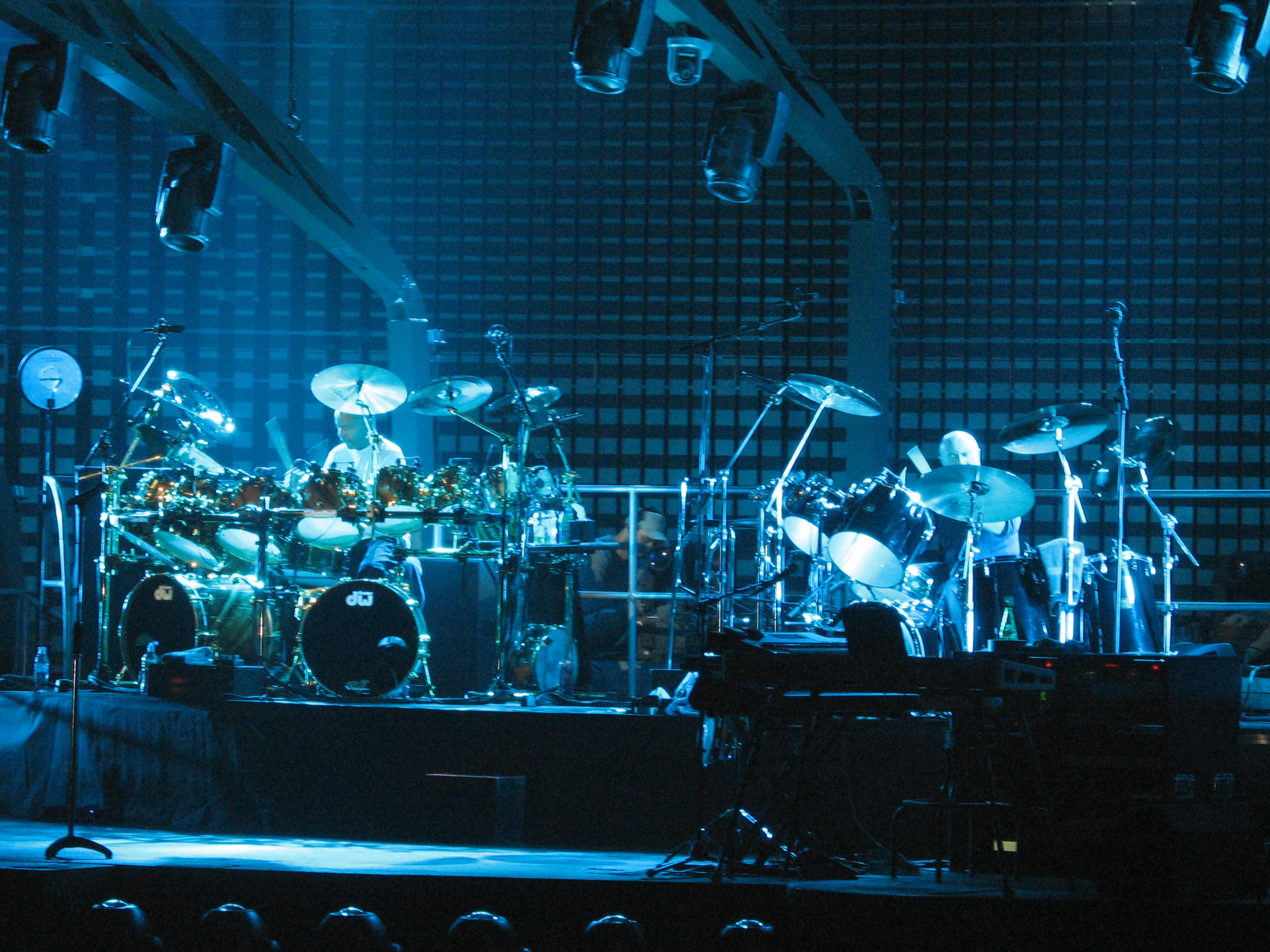 Genesis concert at the Verizon Center, Washington, D.C., USA. Performing a drum duet between Chester Thompson and Phil Collins.